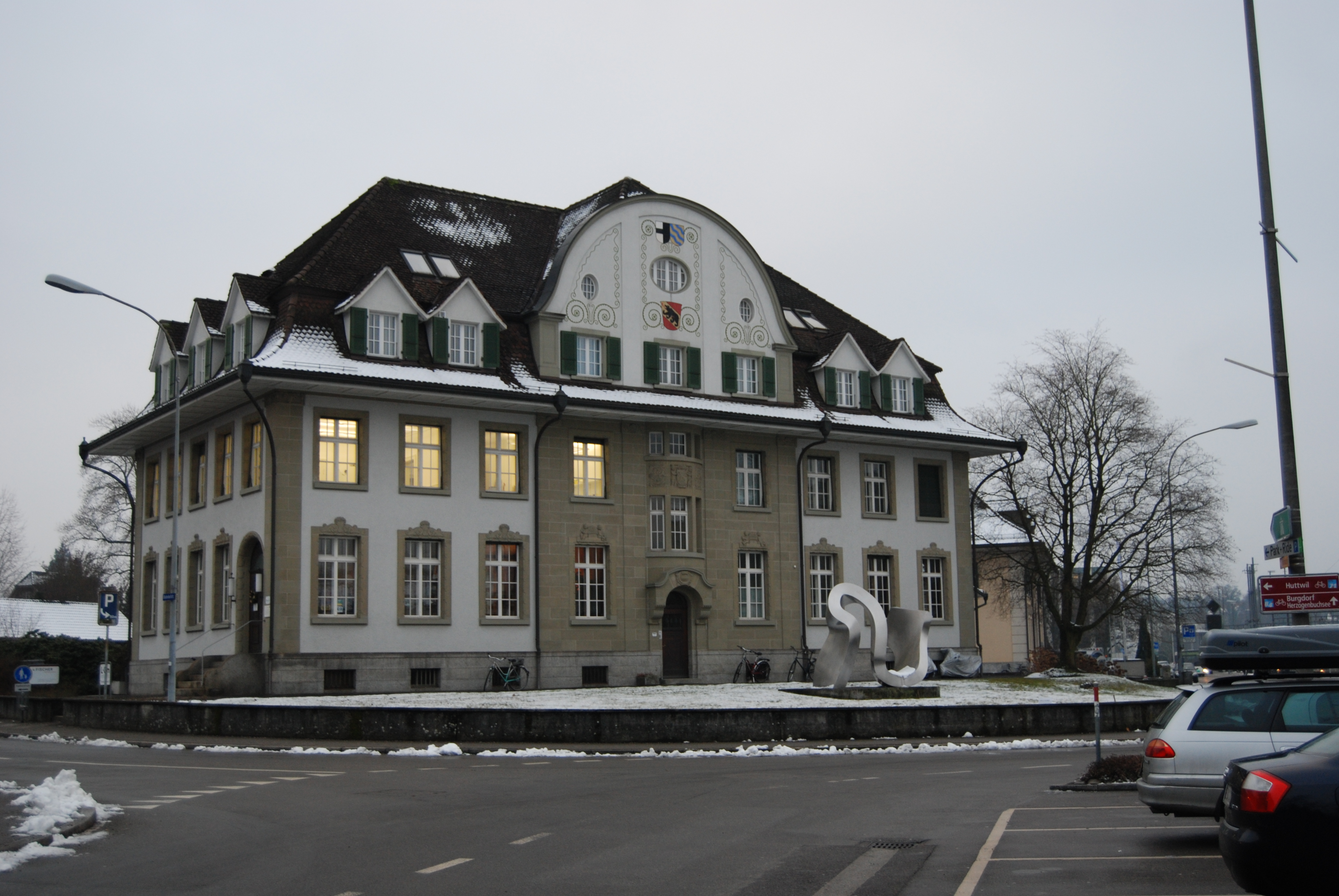 Langenthal, canton of Bern, SwitzerlandEsperanto: Langenthal, Kantono Berno, Svislando